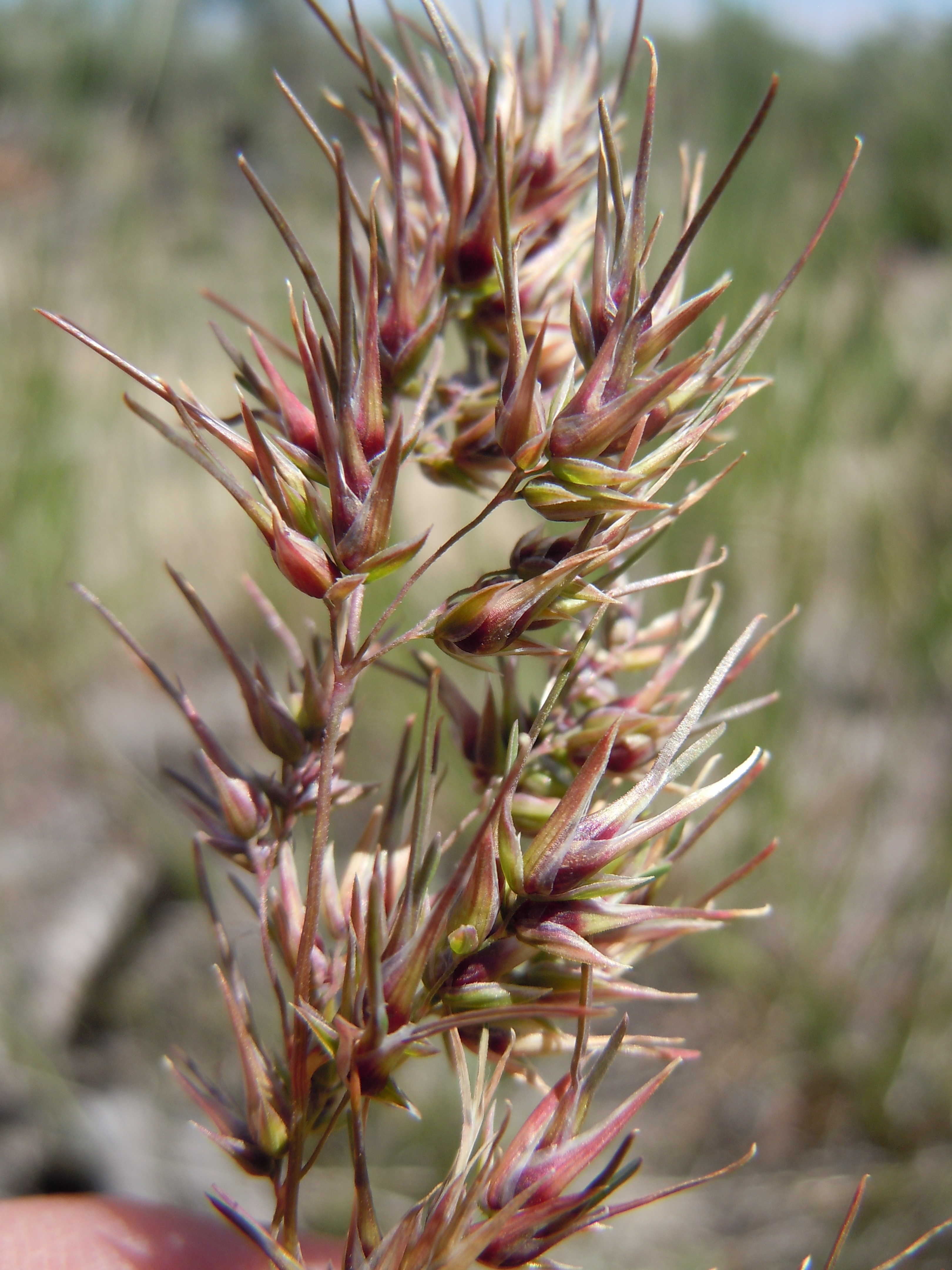 Poa bulbosa exemplifies the exotic species inhabiting the interior roads on the INL lands. They add to rather than replace the standing native plant diversity.